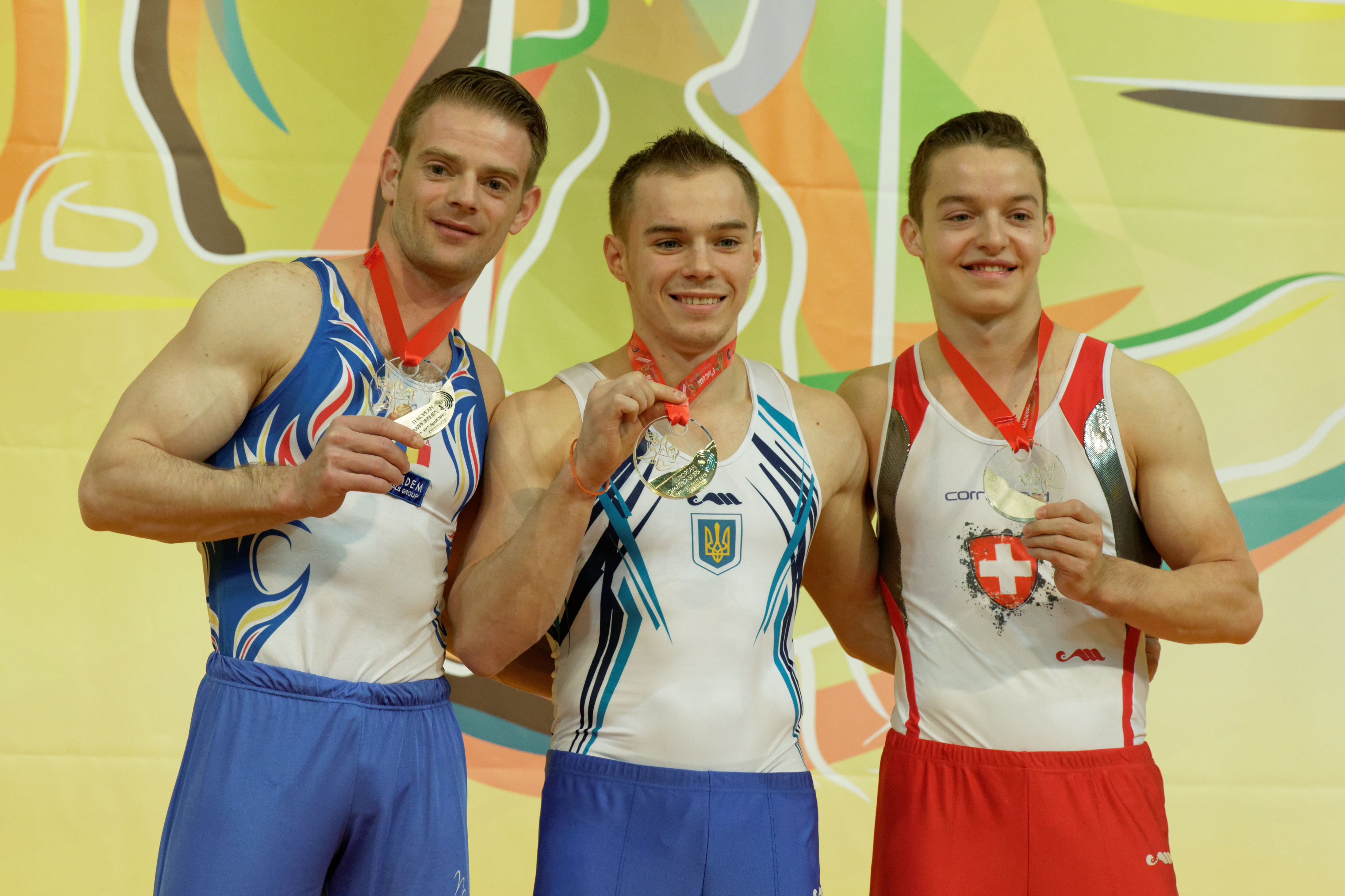 2015 European Artistic Gymnastics Championships.